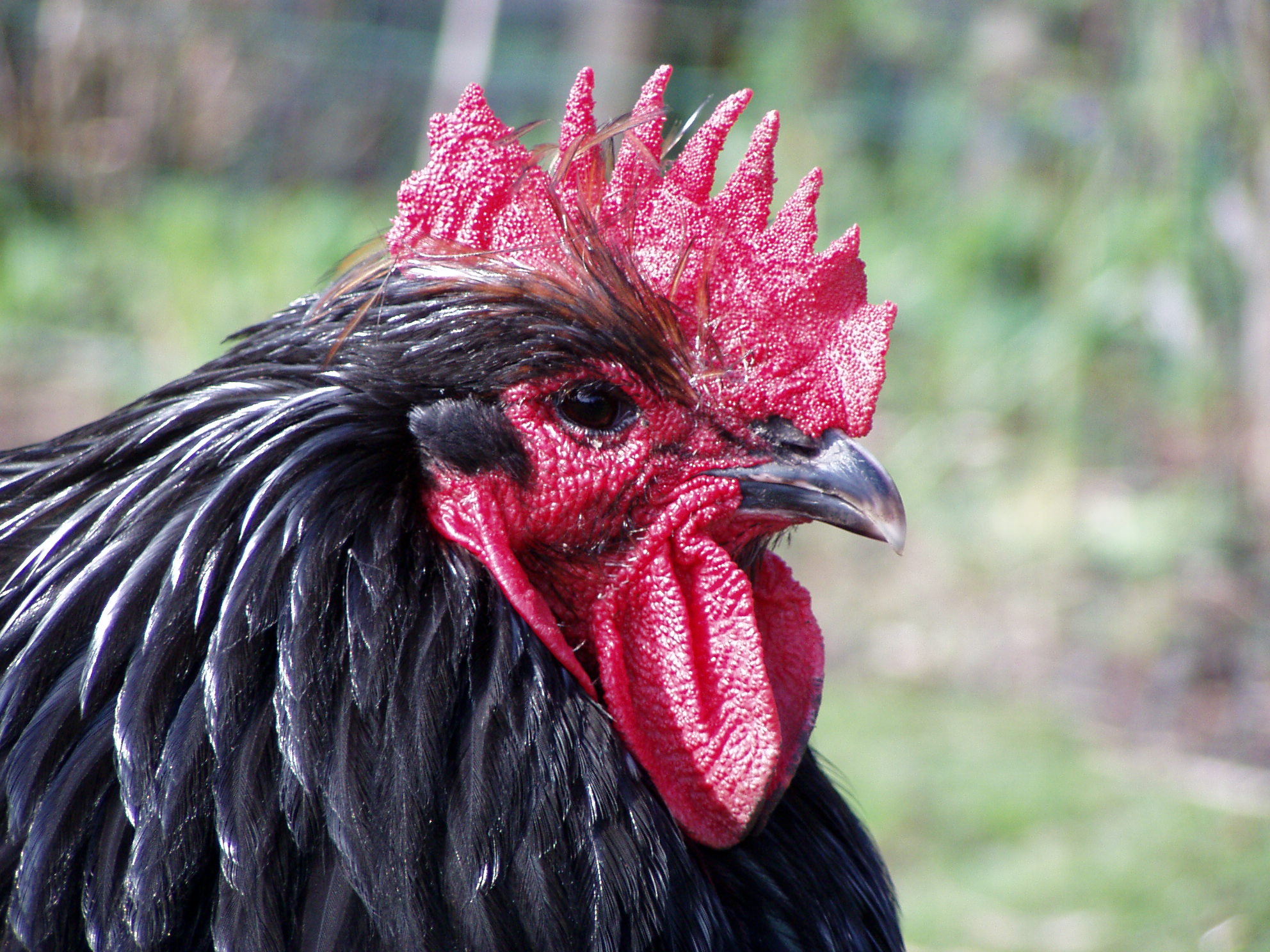 Orpington chicken. Photo taken by User:Rex.